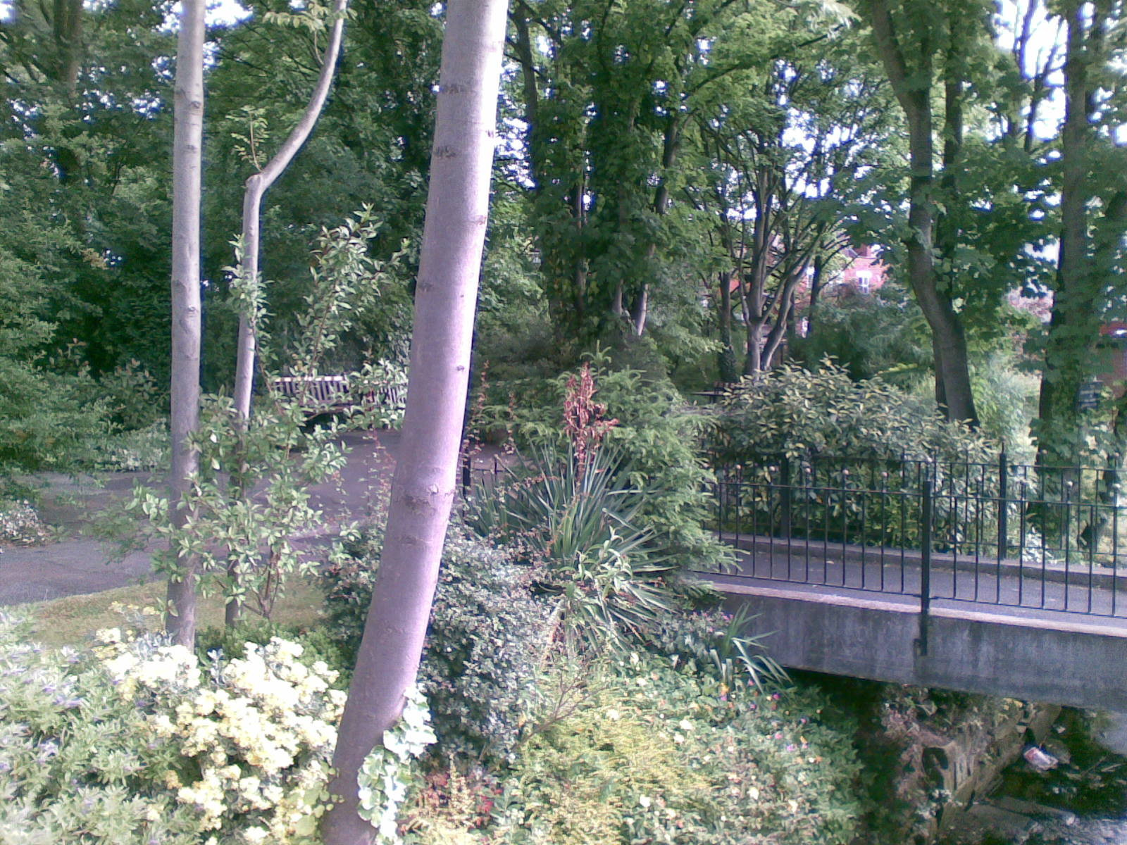 Walter Stansby Memorial Park, Gatley, Greater Manchester, England.